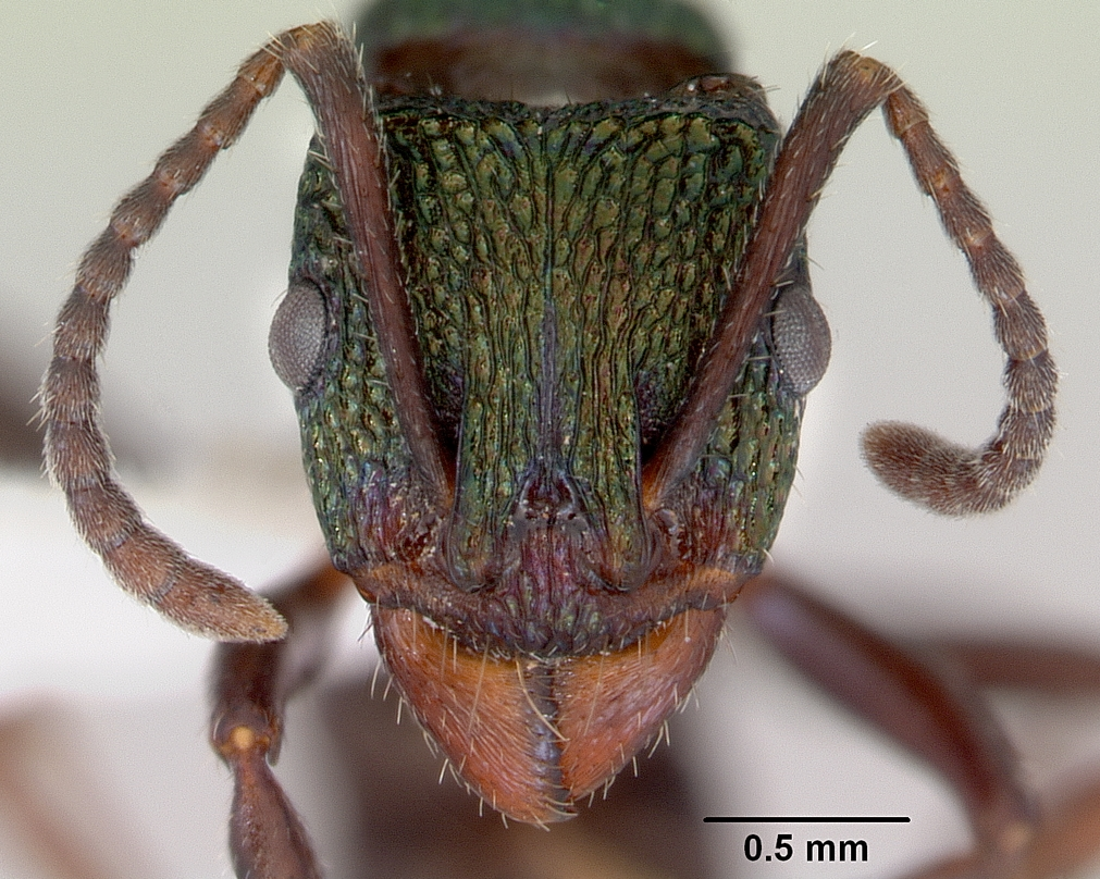 Head view of ant Rhytidoponera metallica specimen casent0172345.